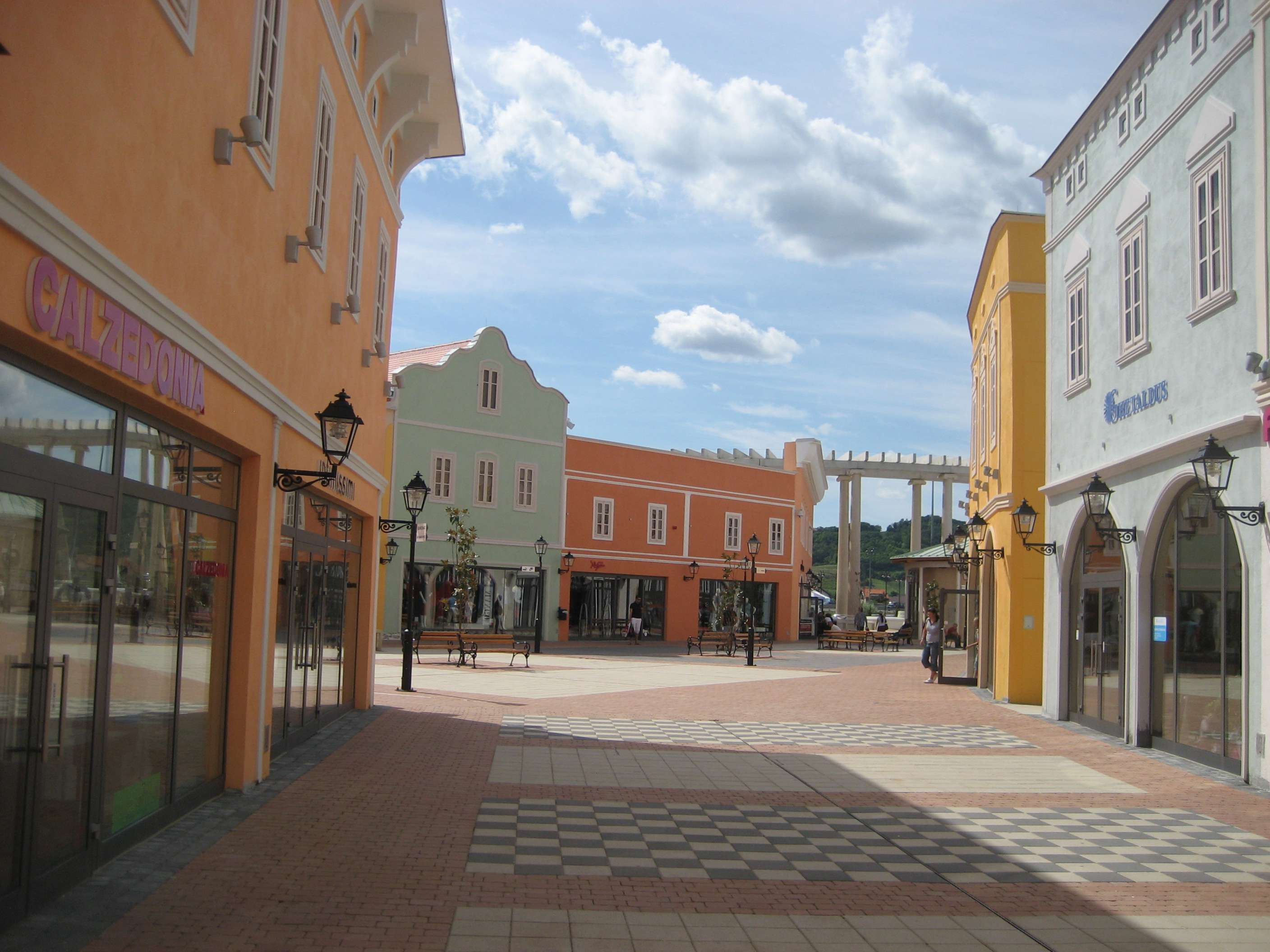 Outlet Center Roses, Croatia